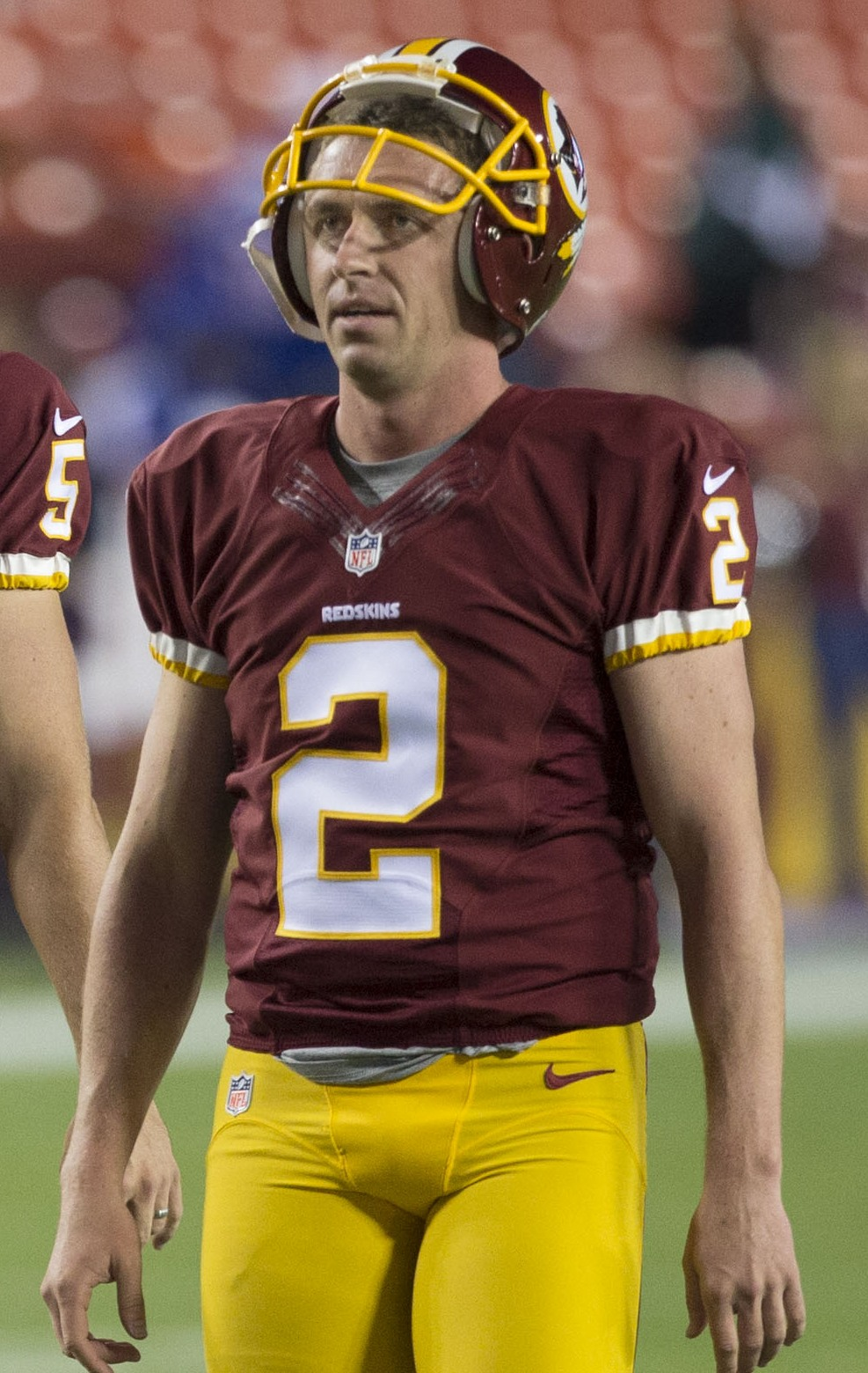 Washington Redskins placekicker, Kai Forbath, in a game against the New York Giants on 9/25/14